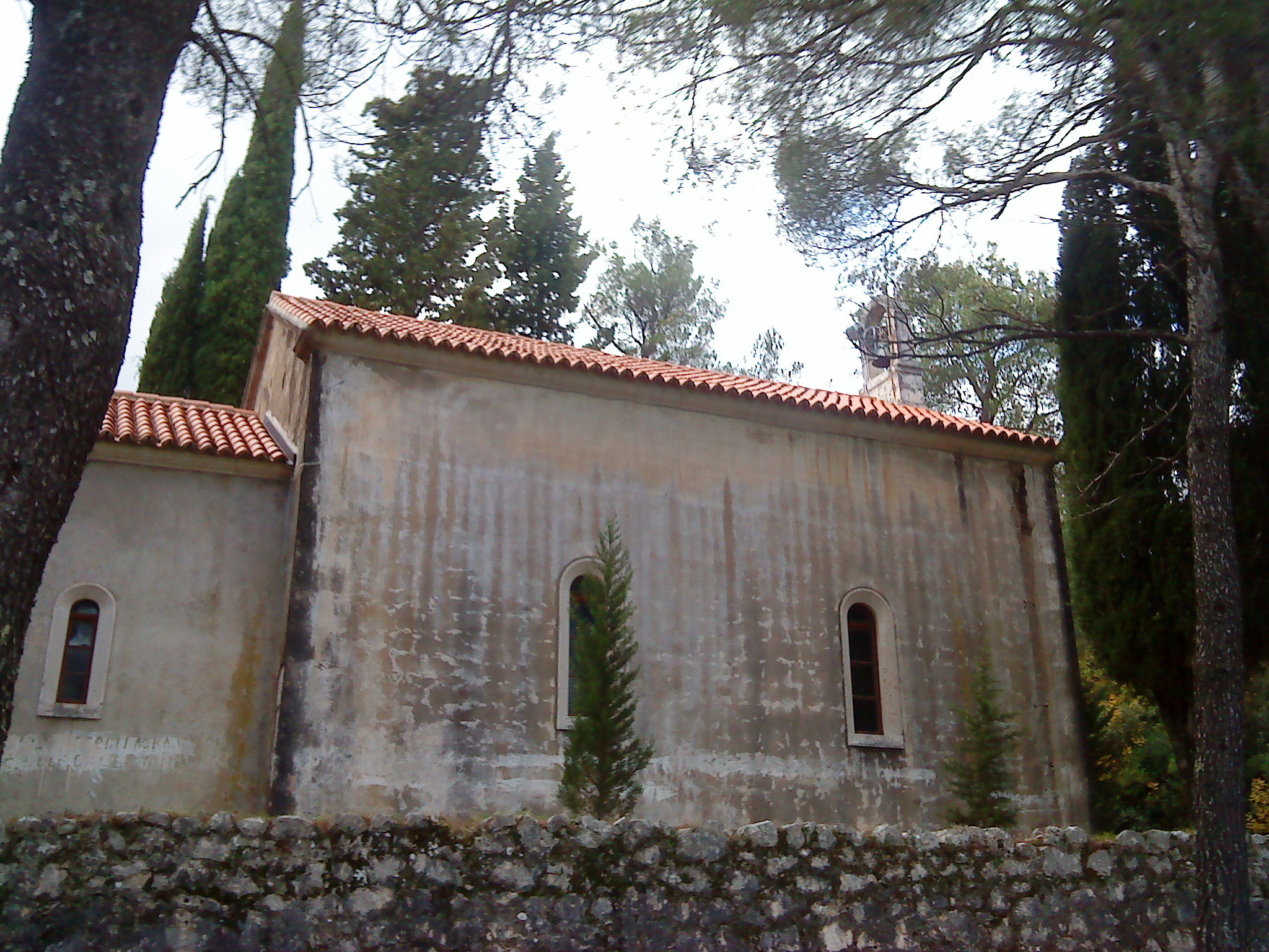 Our Lady of health church in Osobjava